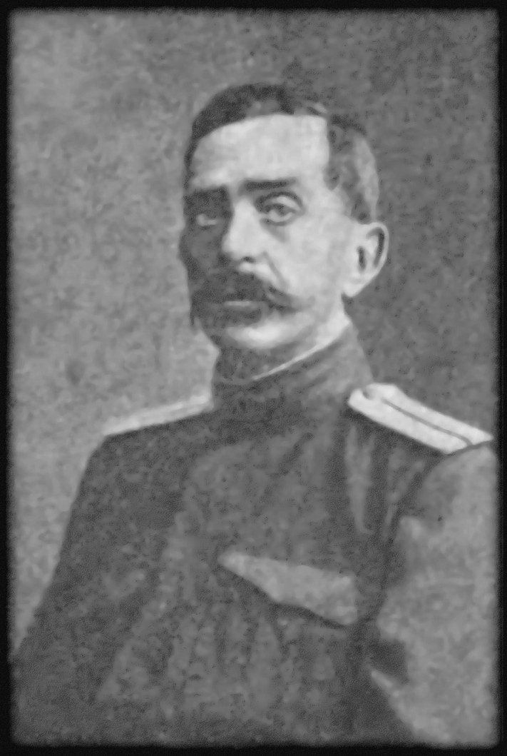 General Antoni Reutte - the commander of the Legion Pulaski